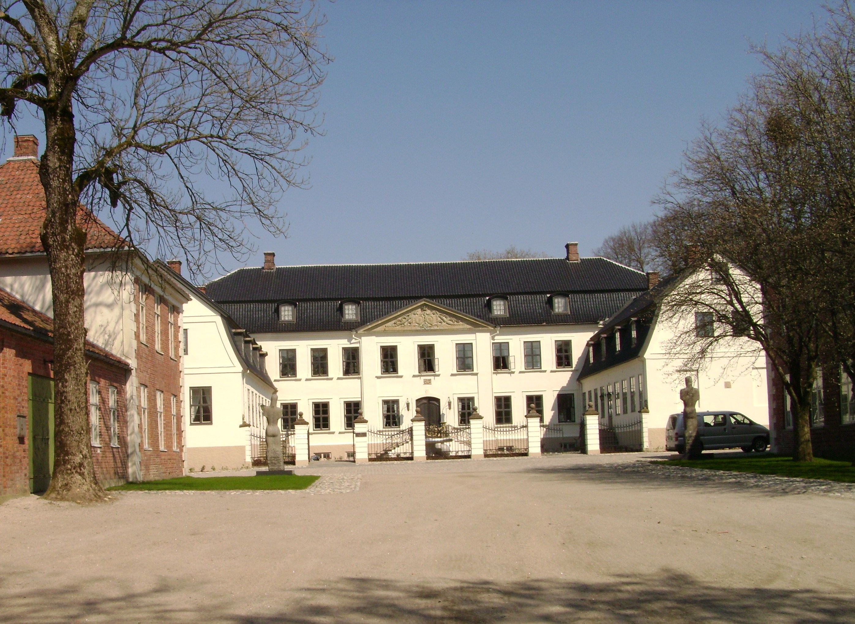 Hafslund Mansion in Sarpsborg, View form the park